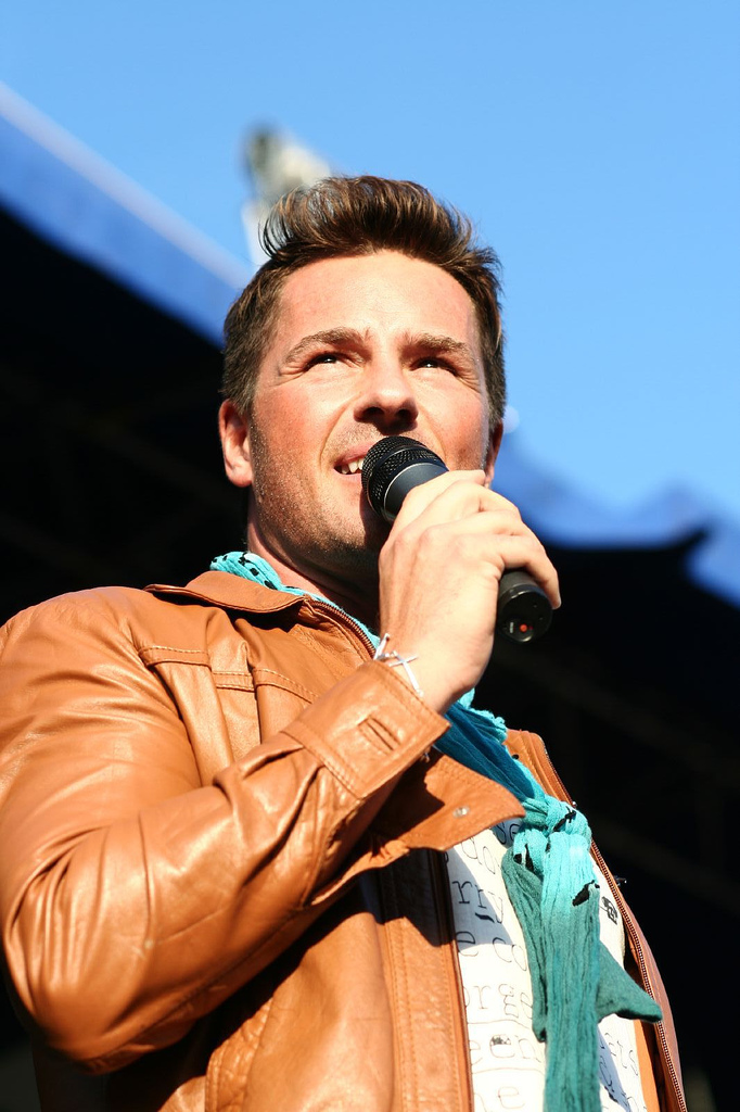 Peter Jöback performing live during Stockholm Pride 2007